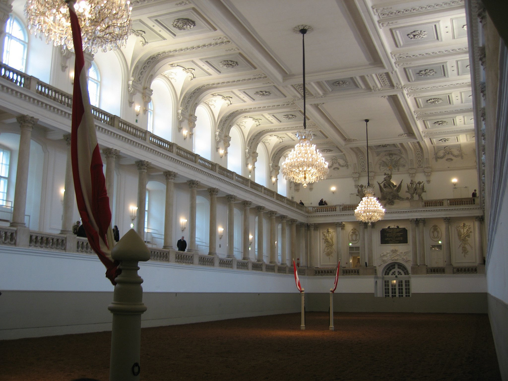 Spanische Hofreitschule in Vienna.